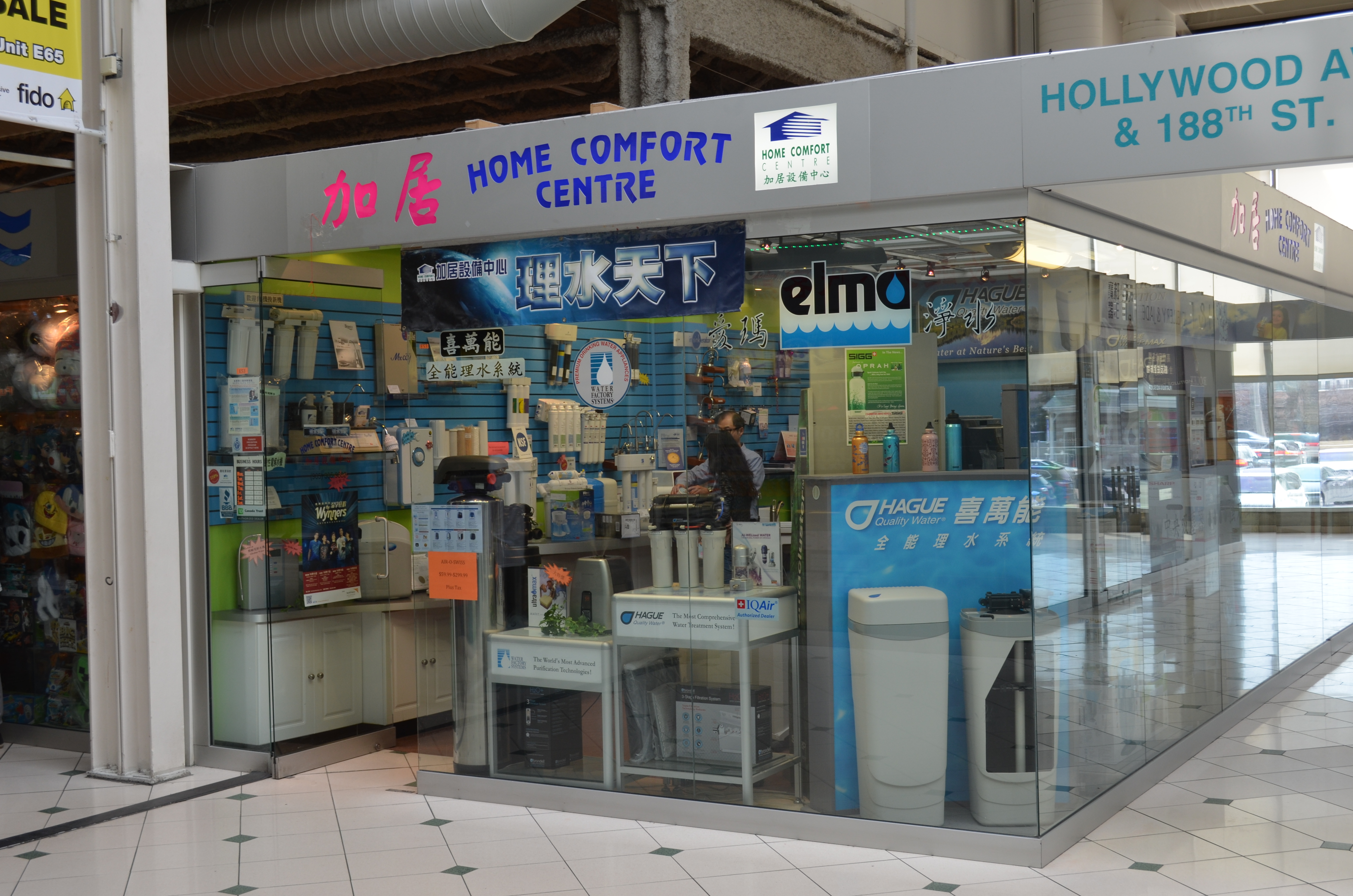 Home Comfort Centre in Pacific Mall